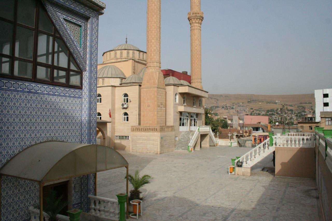 Noah Mausoleum in the city of Cizre, Turkey